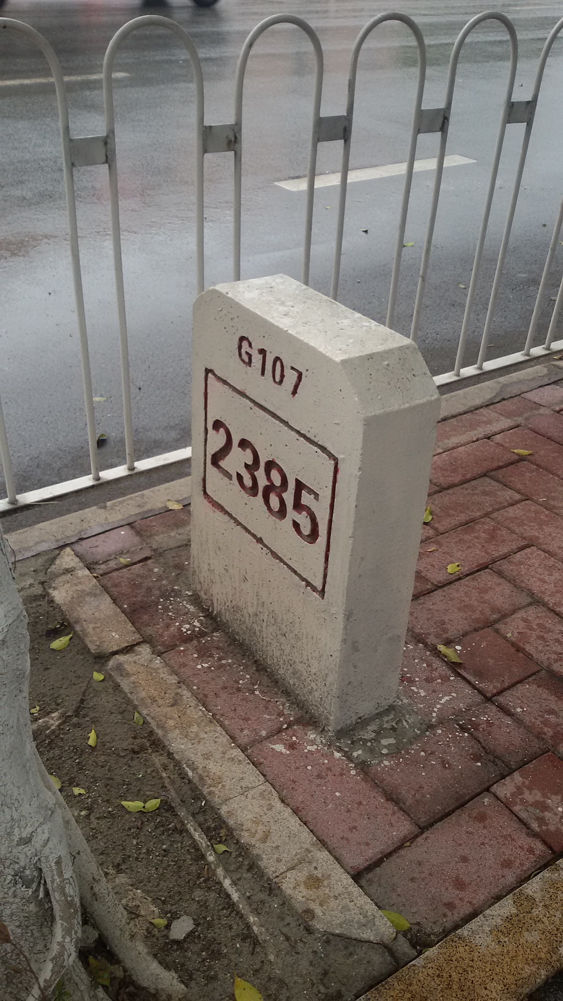 Near the HaaJyun Town, Whampoa District, Guangzhou, Guangdong for China National Highway 107